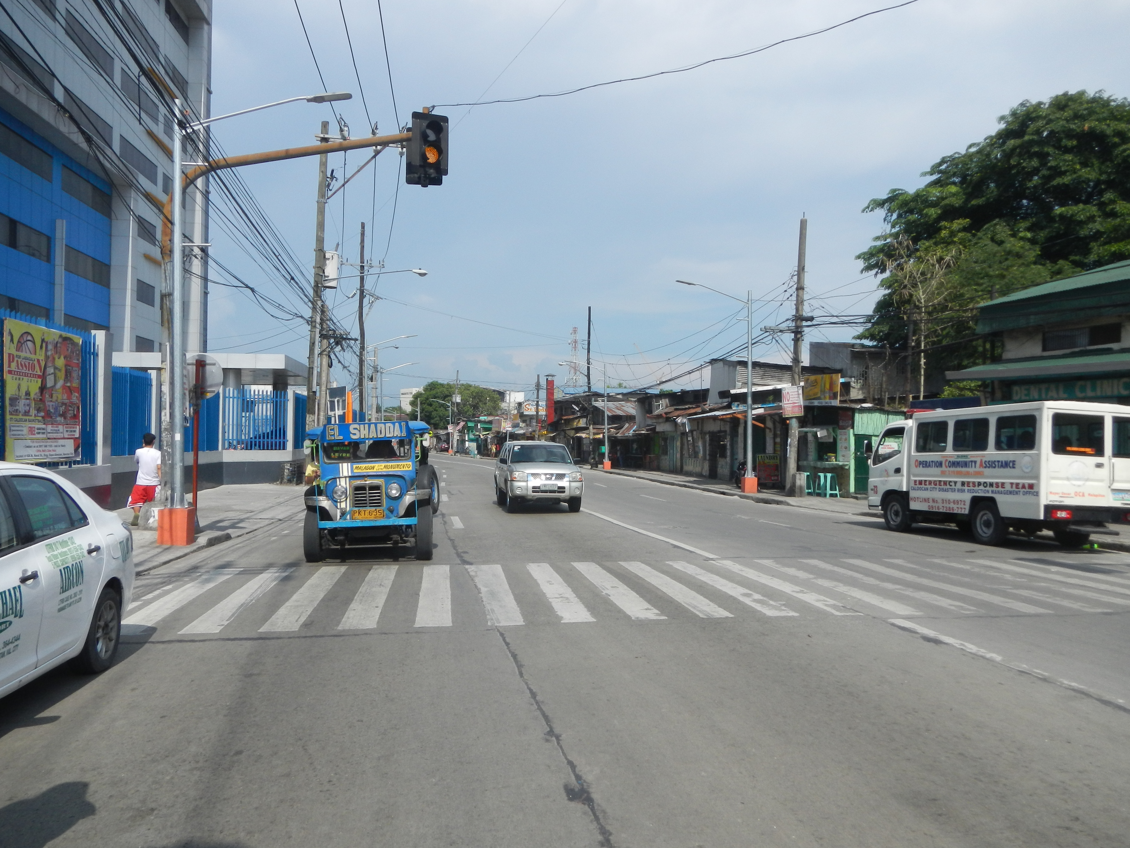 Circumferential Road 4 Samson Road from Footbridge Caloocan City.